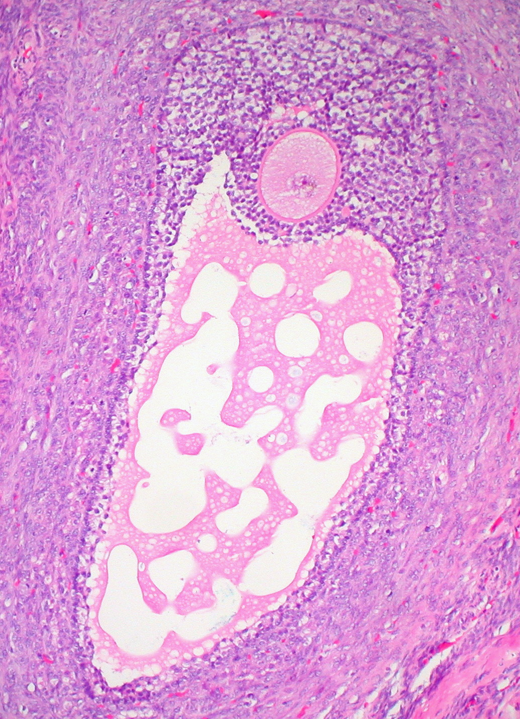 Graafian Follicle, Human Ovary Pathological and histological images courtesy of Ed Uthman at flickr.